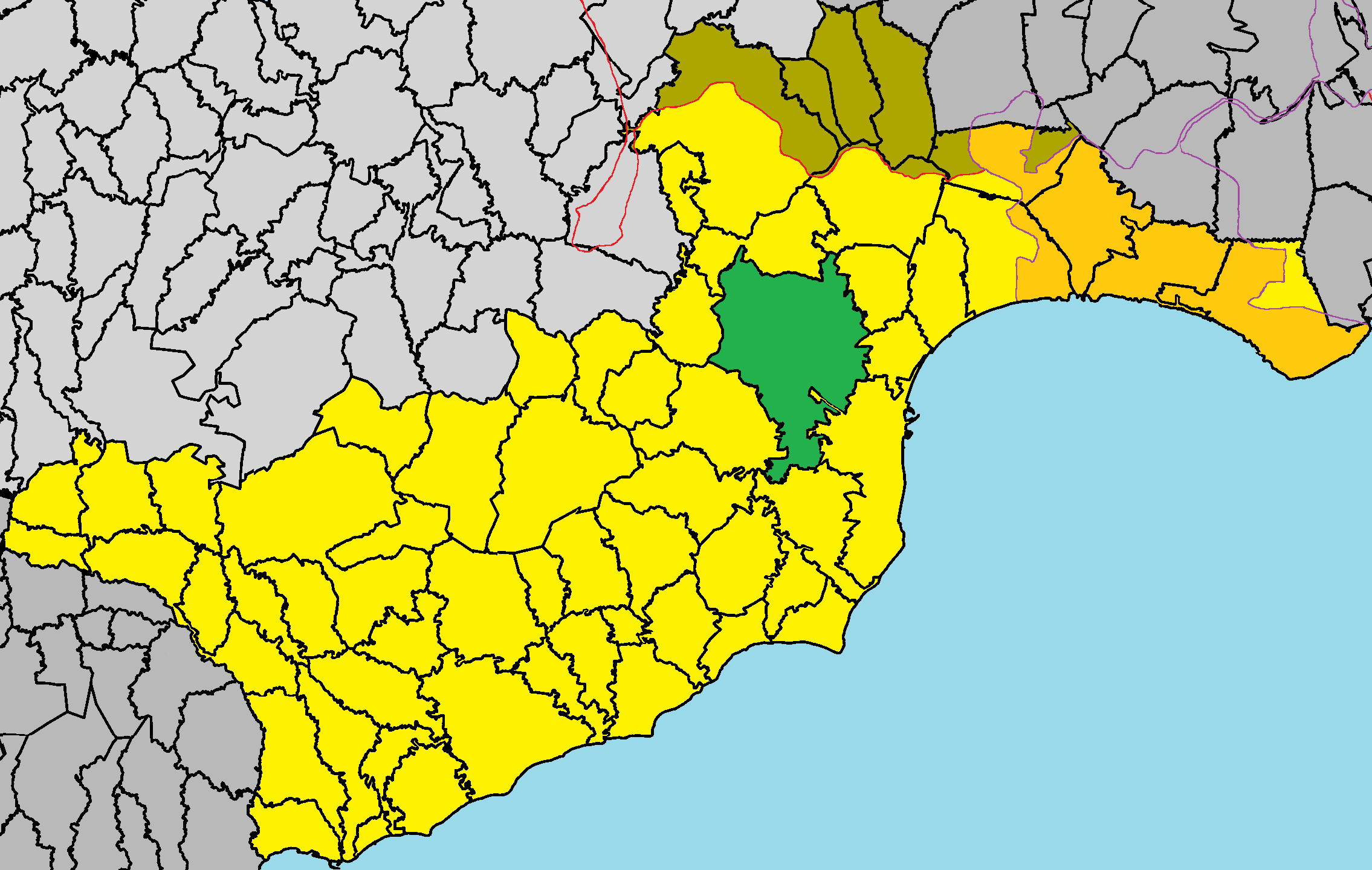 Aradippou in Larnaca District.